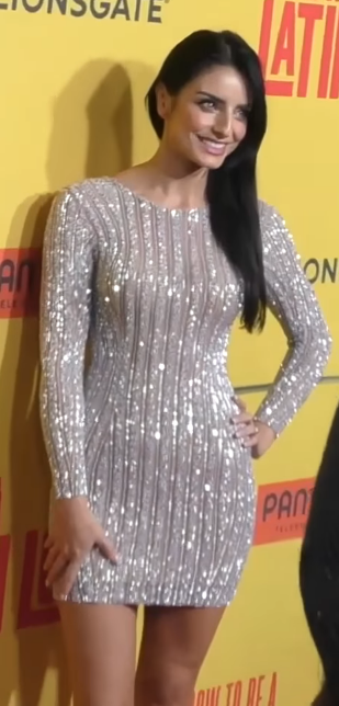 Mauricio Ochmann and Aislinn Derbez at the How To Be A Latin Lover Premiere at ArcLight Theatre in H